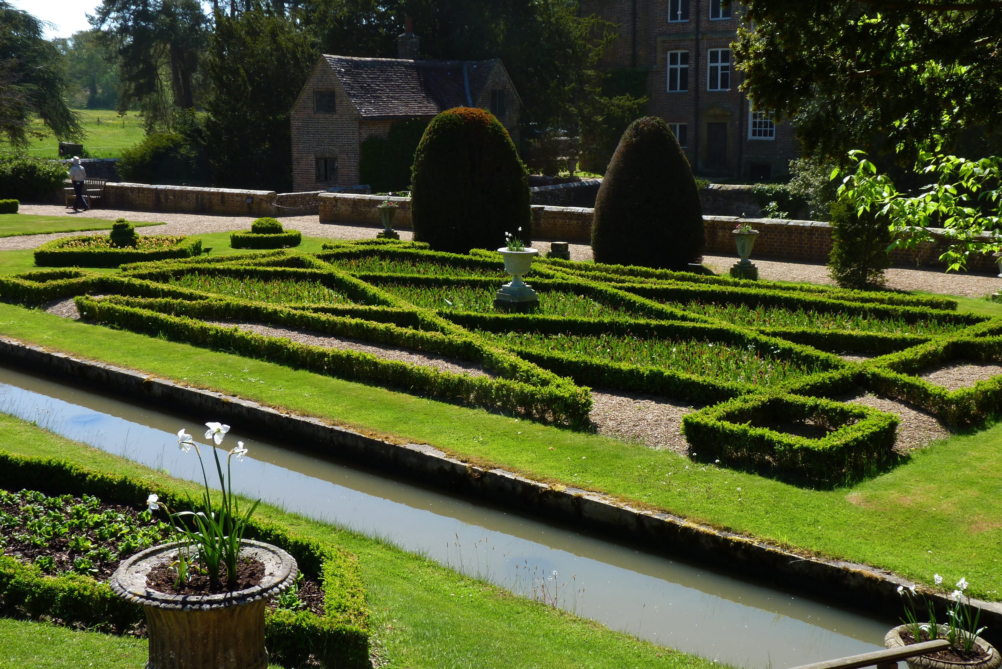 Historic Parterre garden in Groombridge Place